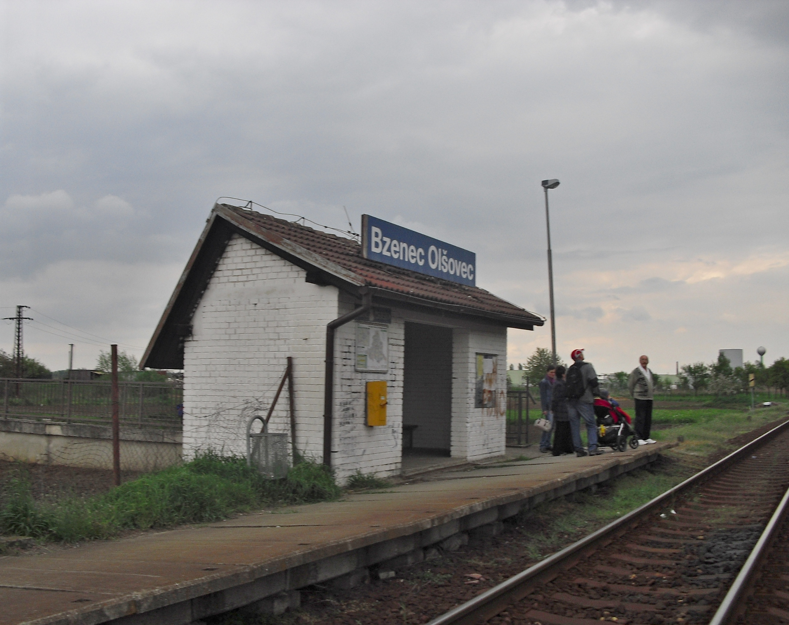 Bzenec-Olšovec, train stop, Czech Republic.